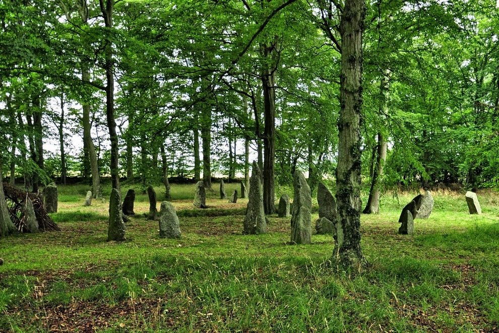 Louisenlund with the largest concentratmegaliths.ion of